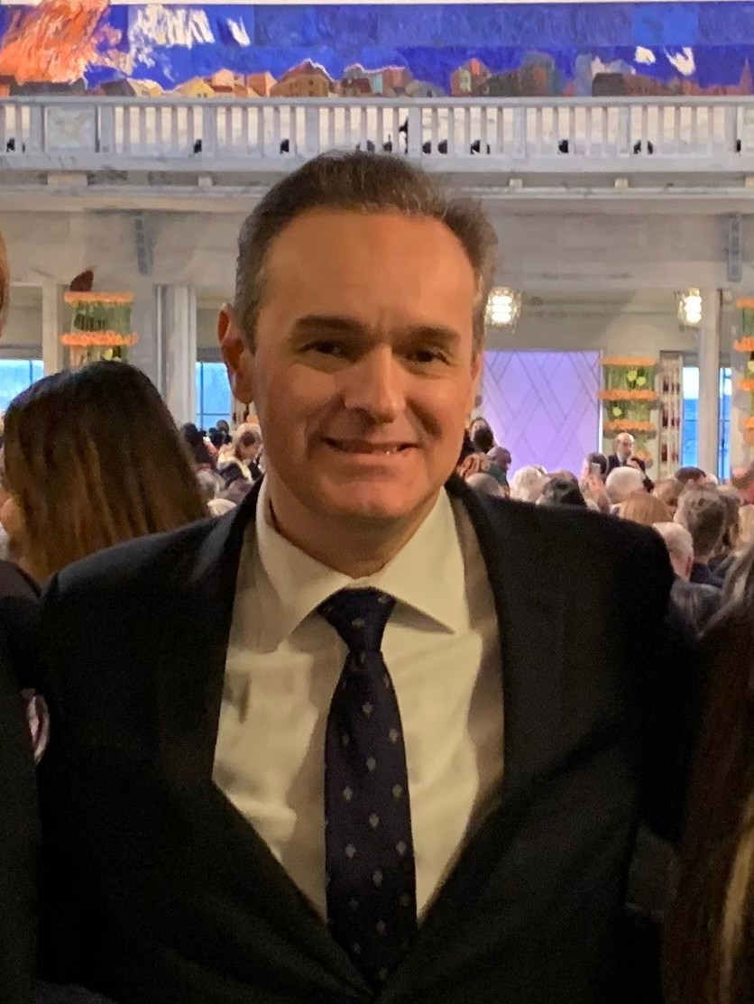 Helder Antunes at Nobel Peace Prize 2018